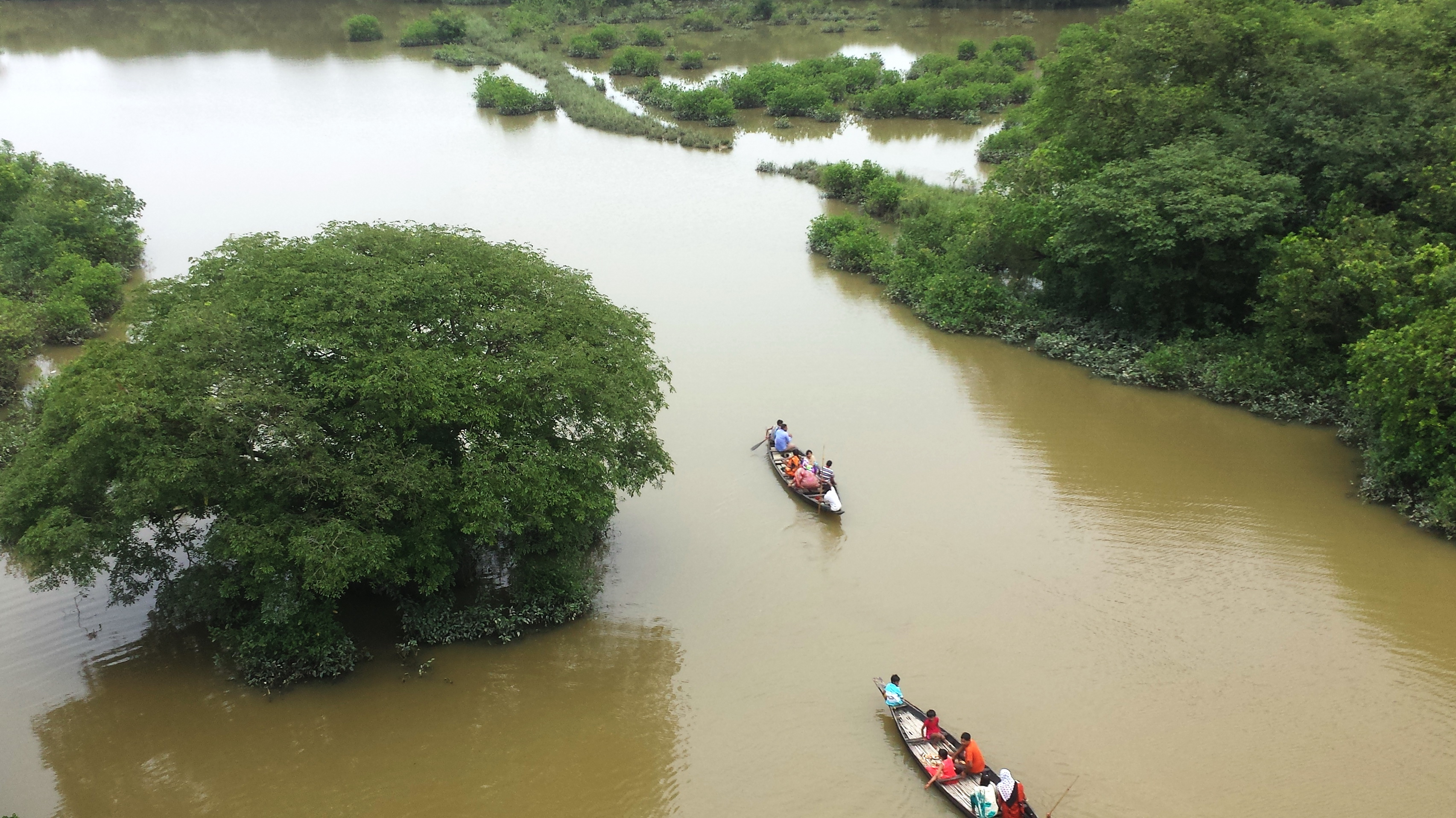 Ratargul Swamp Forrest